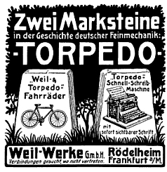 Ad for bicycles by Weil & Co Frankfurt am Main, 1908